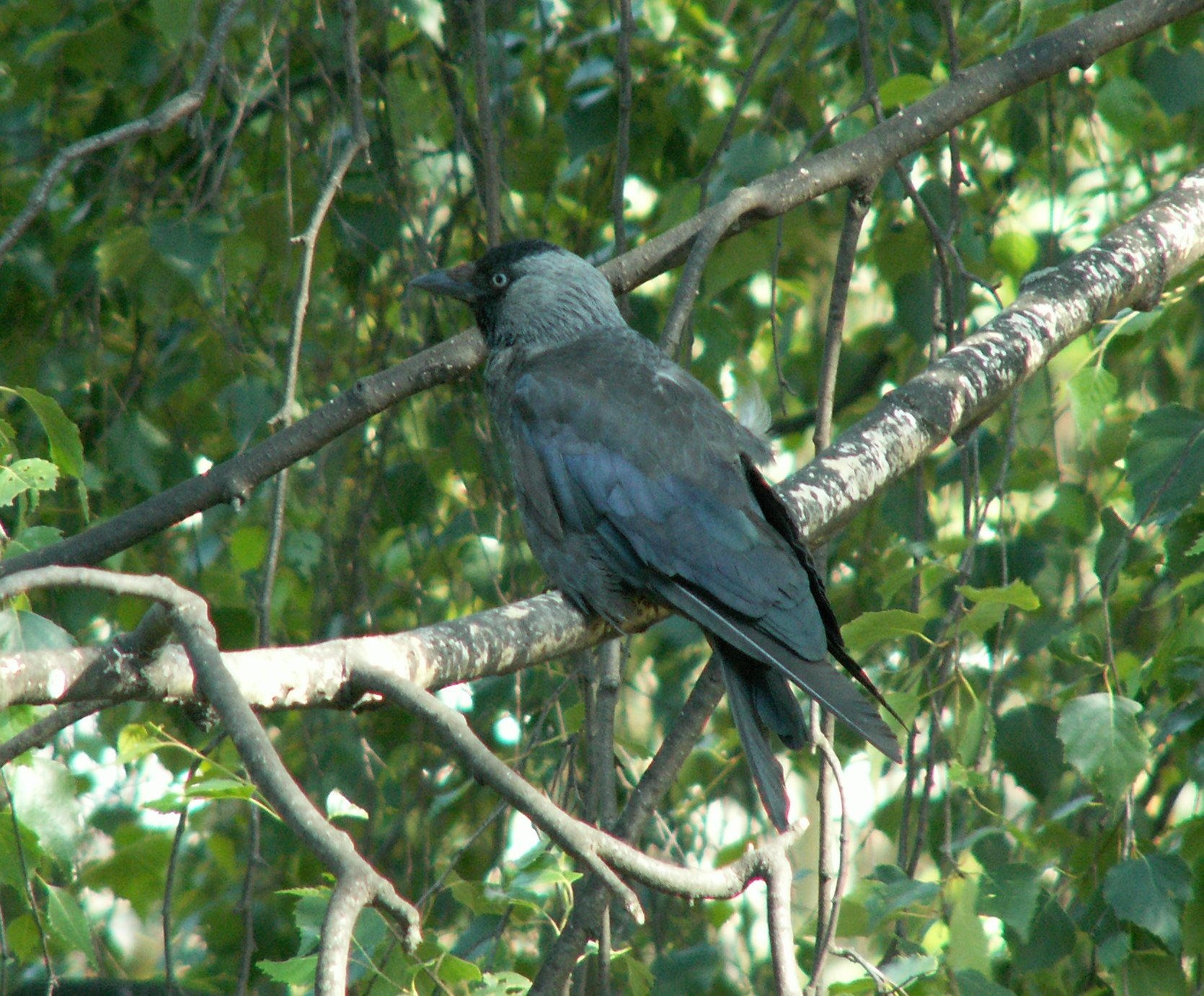 Jackdaw (Corvus Monedula) Photo by User:Monedula Date: 2006-07-07 Place: Yaroslavl, Russia